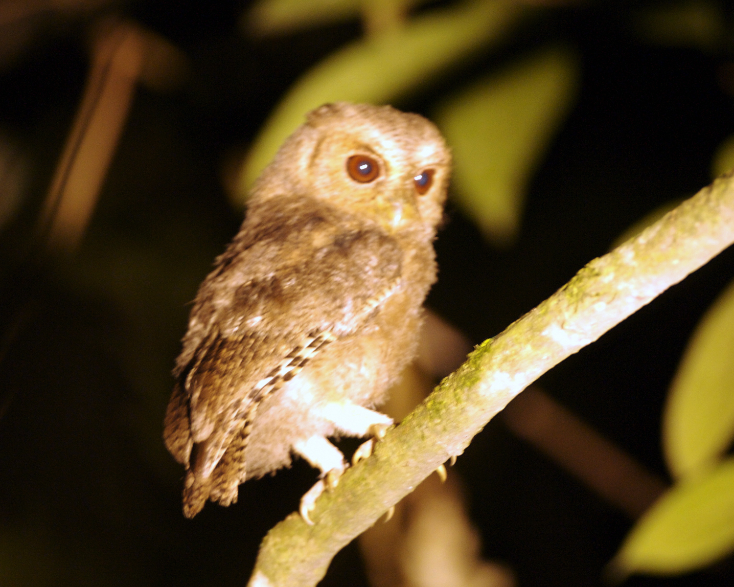 Rajah Scops-Owl (Otus brookii) Location: Altitude 1830m, Gunung Gede, Java, Indonesia 26th August 2006 Same bird caught with flash